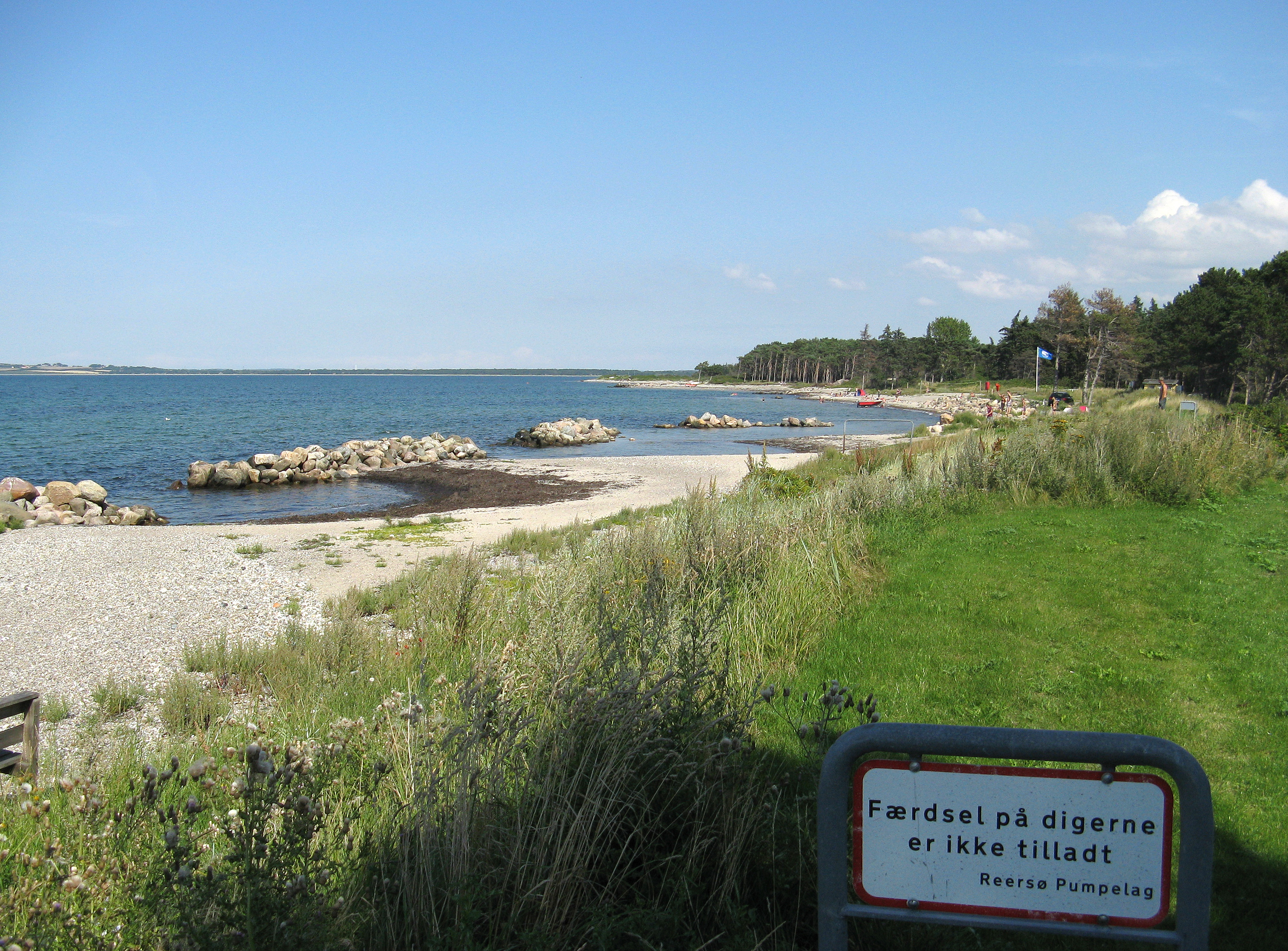 The northbeach of Reersø